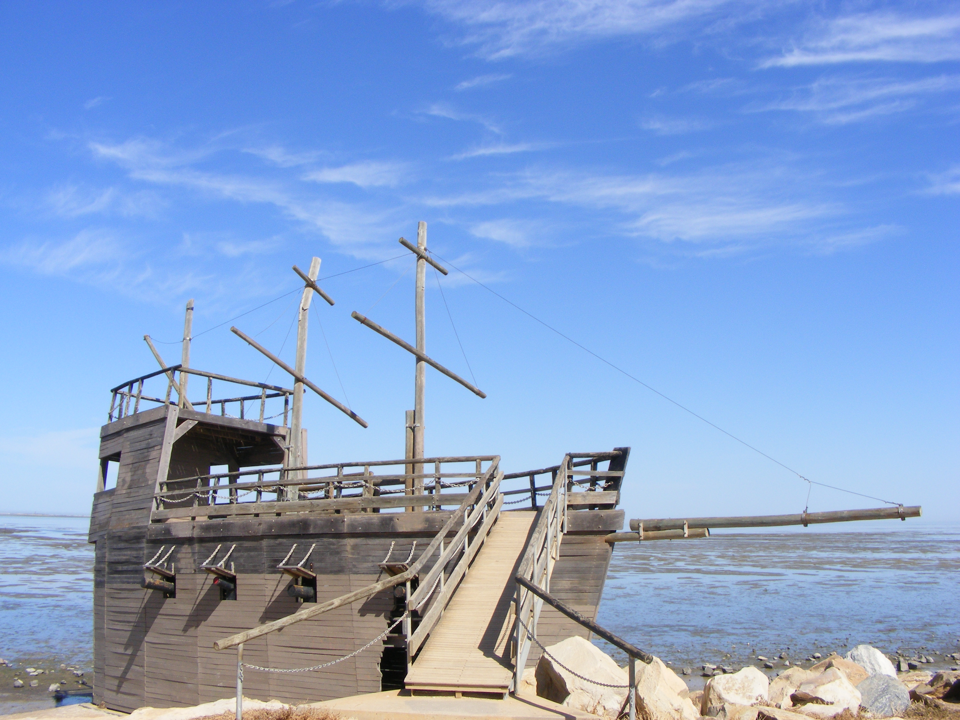 The Pirate ship at the kid's adventure playground, St Kilda, South Australia. In the background are the mudflats of Barker Inlet.